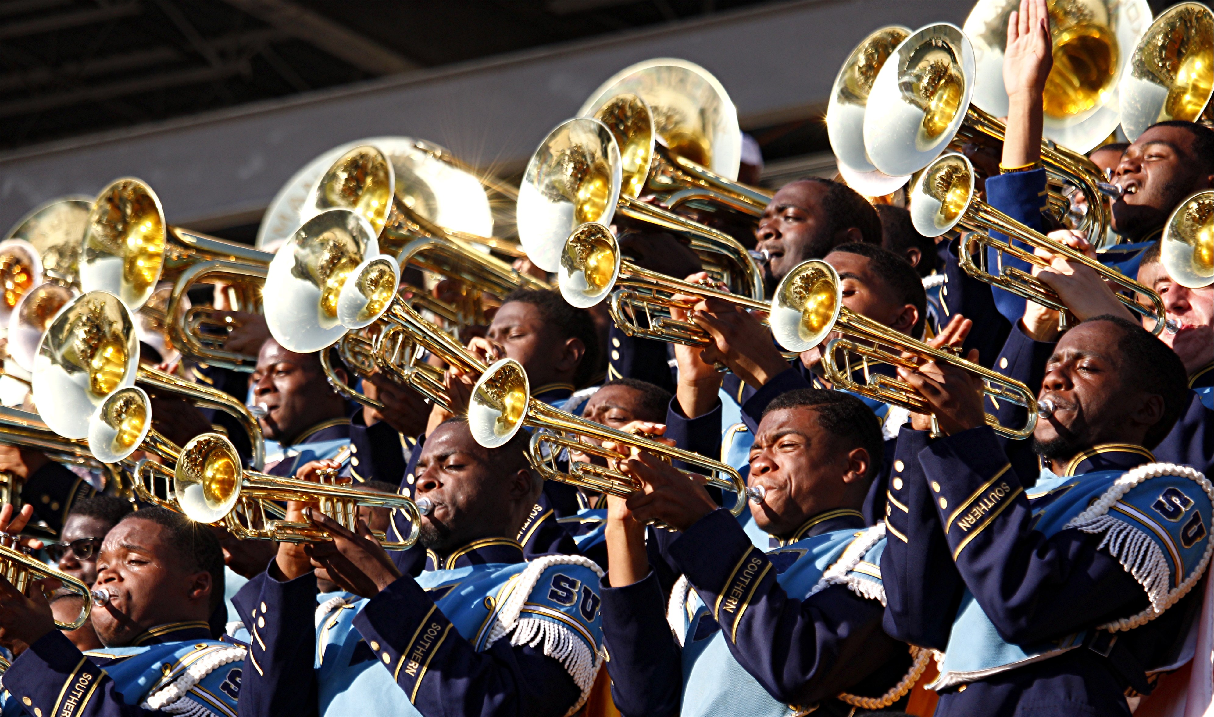 State Fair Showdown 2019 Southern University (SU) Human Jukebox feat. Fabulous Dancing Dolls vs. Texas Southern University (TXSU) Cotton Bowl Stadium Dallas, TX 10/19/19 HBCU Band Warning: Harsh Lighting**